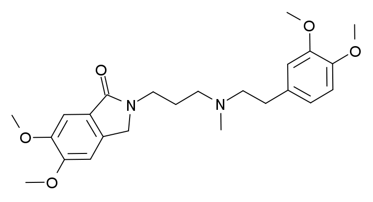 Structure of falipamil